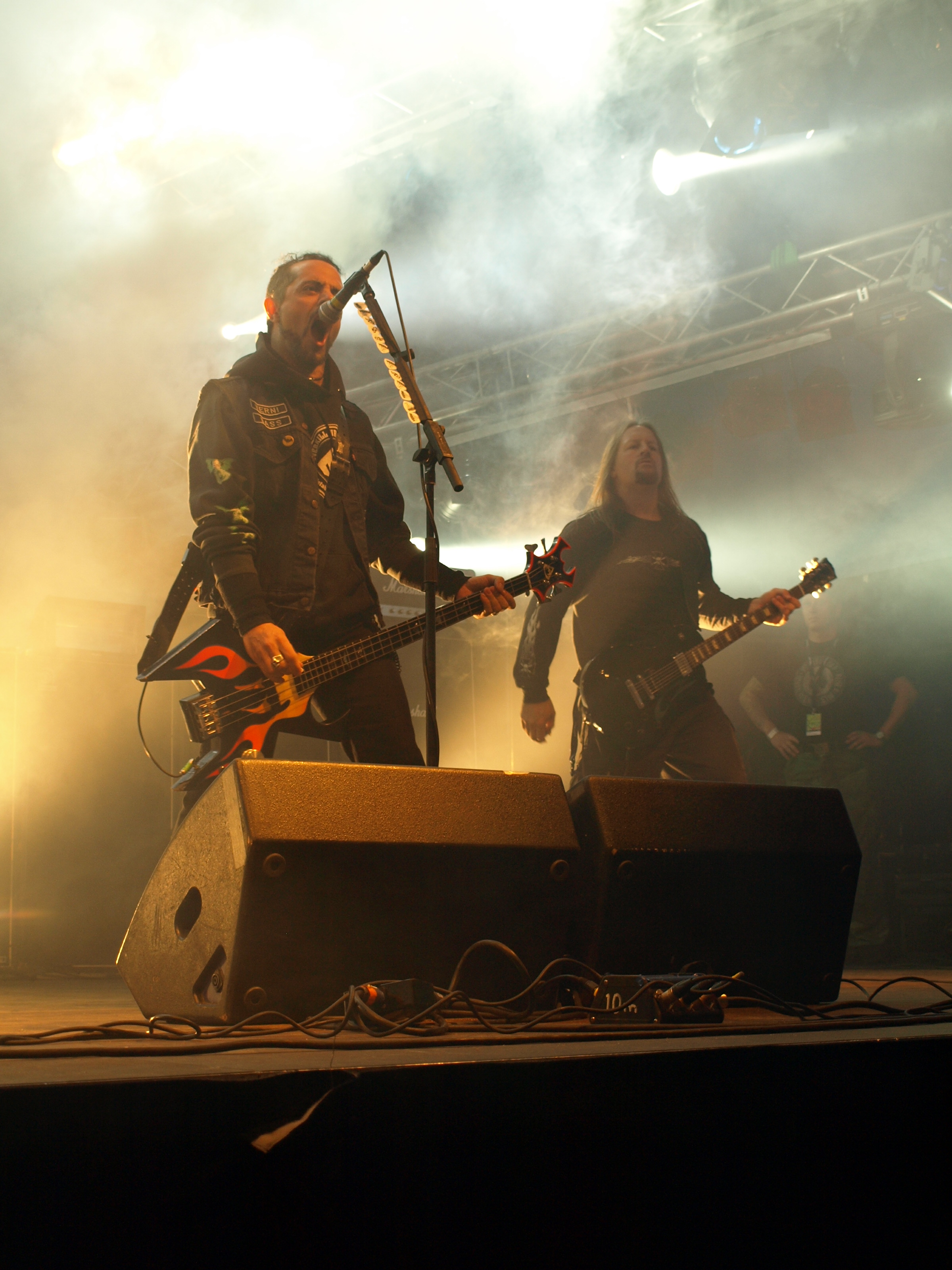 American thrash metal band Overkill live at Jalometalli 2008 in Oulu.